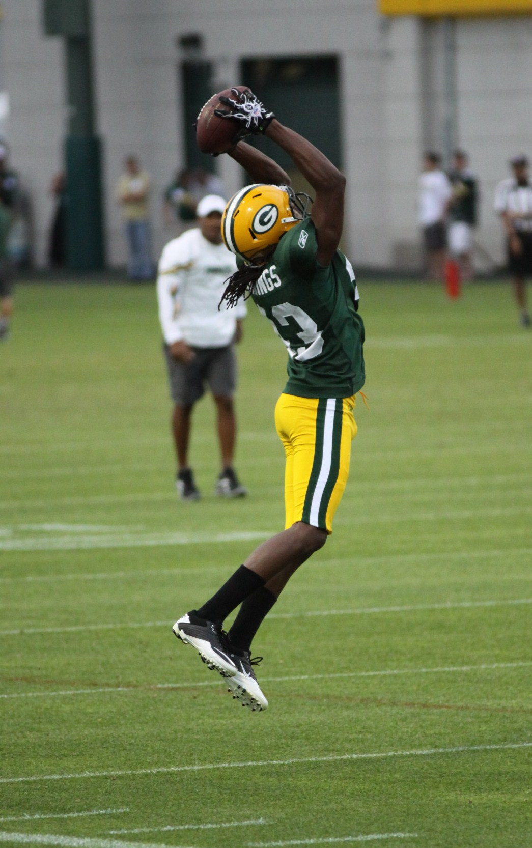 M.D. Jennings during the Green Bay Packers preseason training camp, Ray Nitschke Field, Green Bay, Wisconsin, August 5, 2011